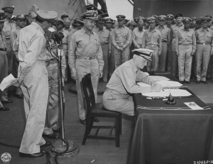 AWM caption: Tokyo Bay -- Surrender of Japanese aboard USS Missouri. Admiral Chester Nimitz, representing the United States, signs the instrument of surrender.